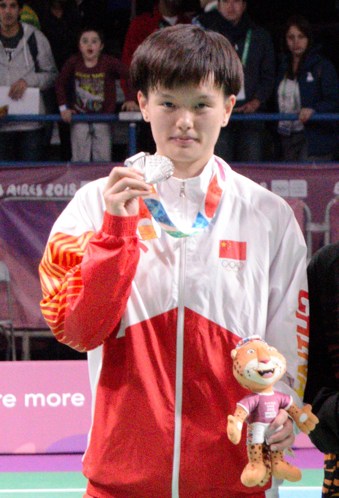 Victory ceremony of the girls singles badminton tournament of the 2018 Summer Youth Olympics.